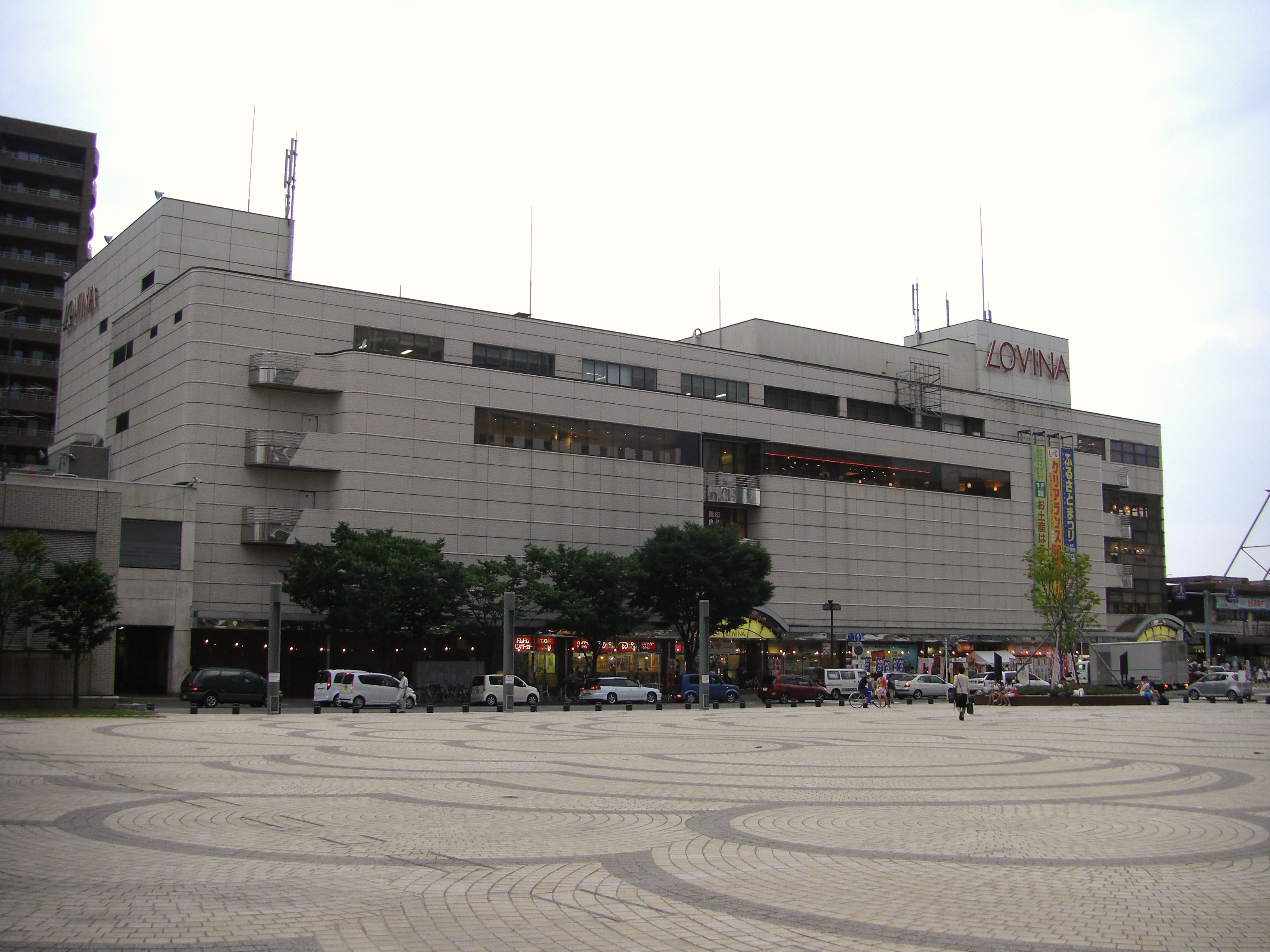 LOVINA in Aomori, Aomori, Japan.